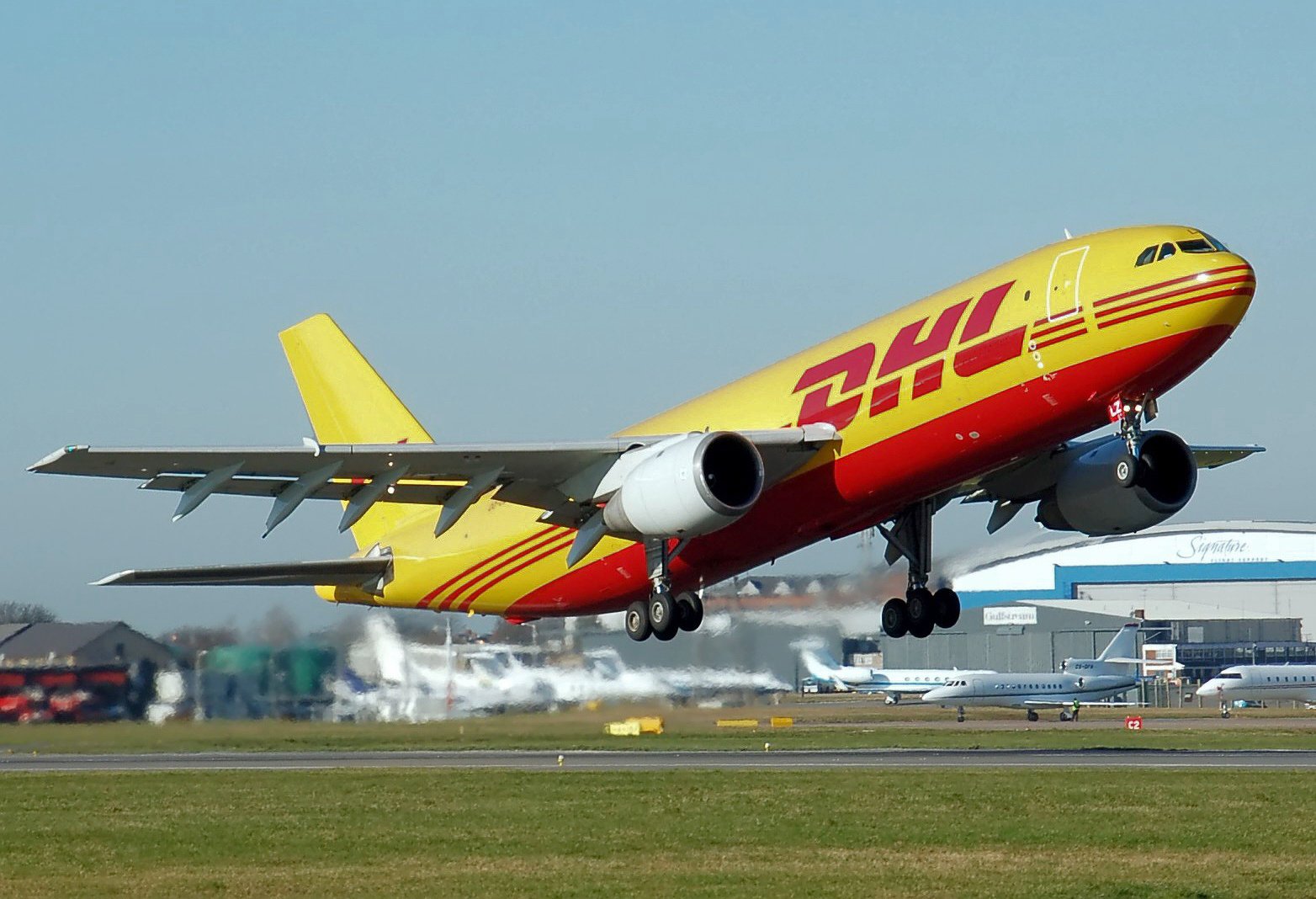 DHL Airbus A300B4-200 (OO-DLZ) of European Air Transport takes off from London Luton Airport, Bedfordshire, England